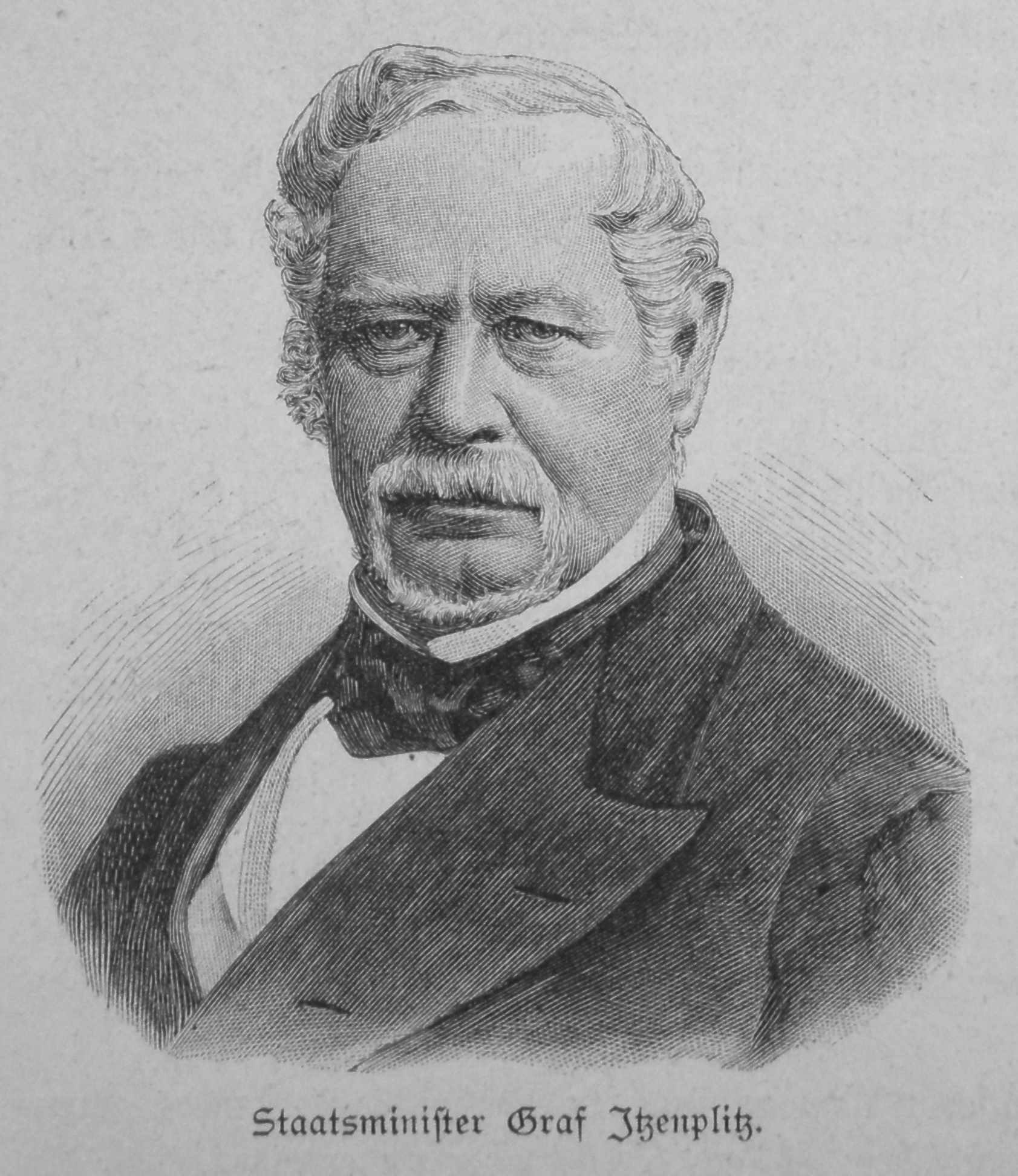 prussian minister of state earl Itzenplitz